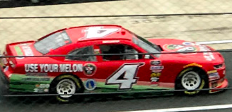 Ross Chastain on track during practice at Dover International Speedway in 2018.